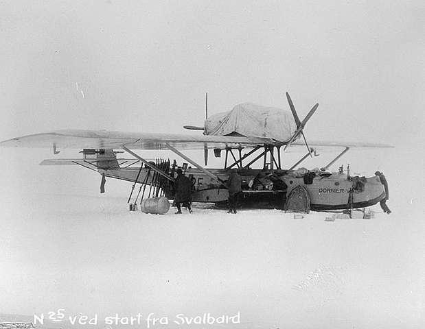 Roald Amundsen's N-25 Dornier Do J at Svalbard prior to take-off on 21 May 1925